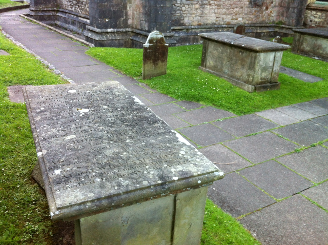 Chest tombs of Thomas (foreground) and Jonas families at Llandaff. Elizabeth Thomas (née Jonas) links the two families. See article on Pwll-coch.